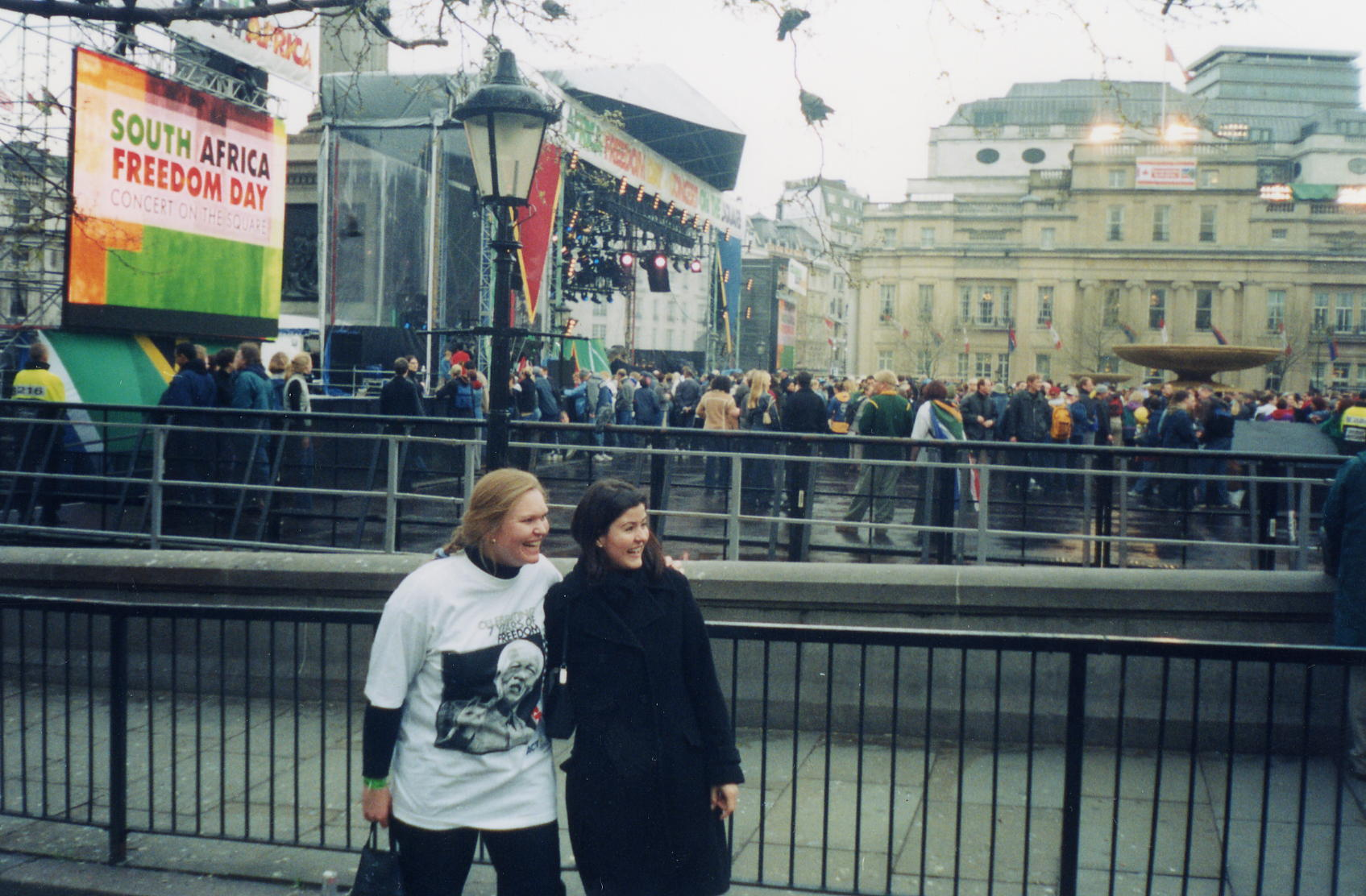 Two South Africans, Stephanie and Carolyn in London celebrating South Africa's Freedom Day